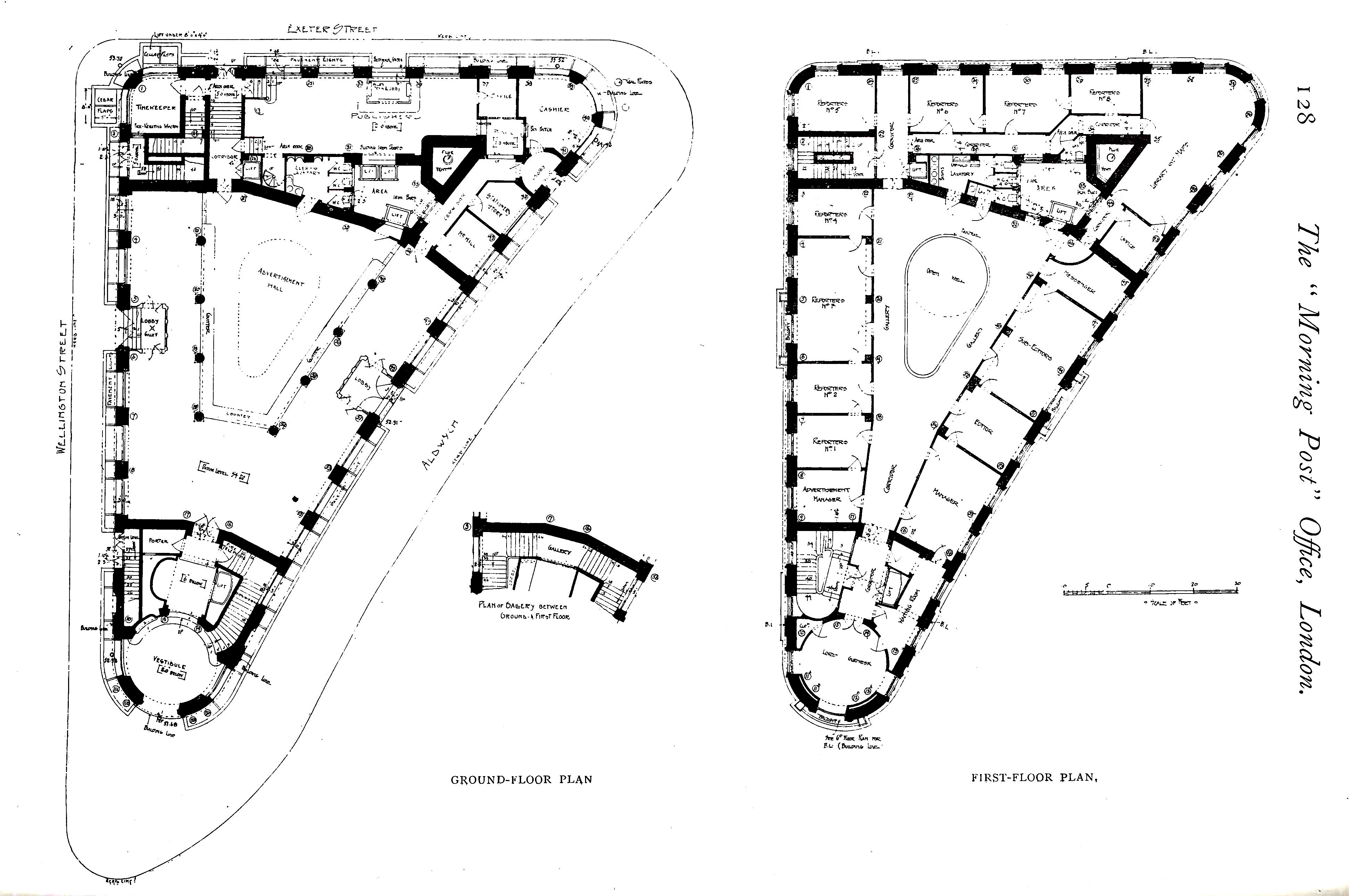 Ground and first floors plans.